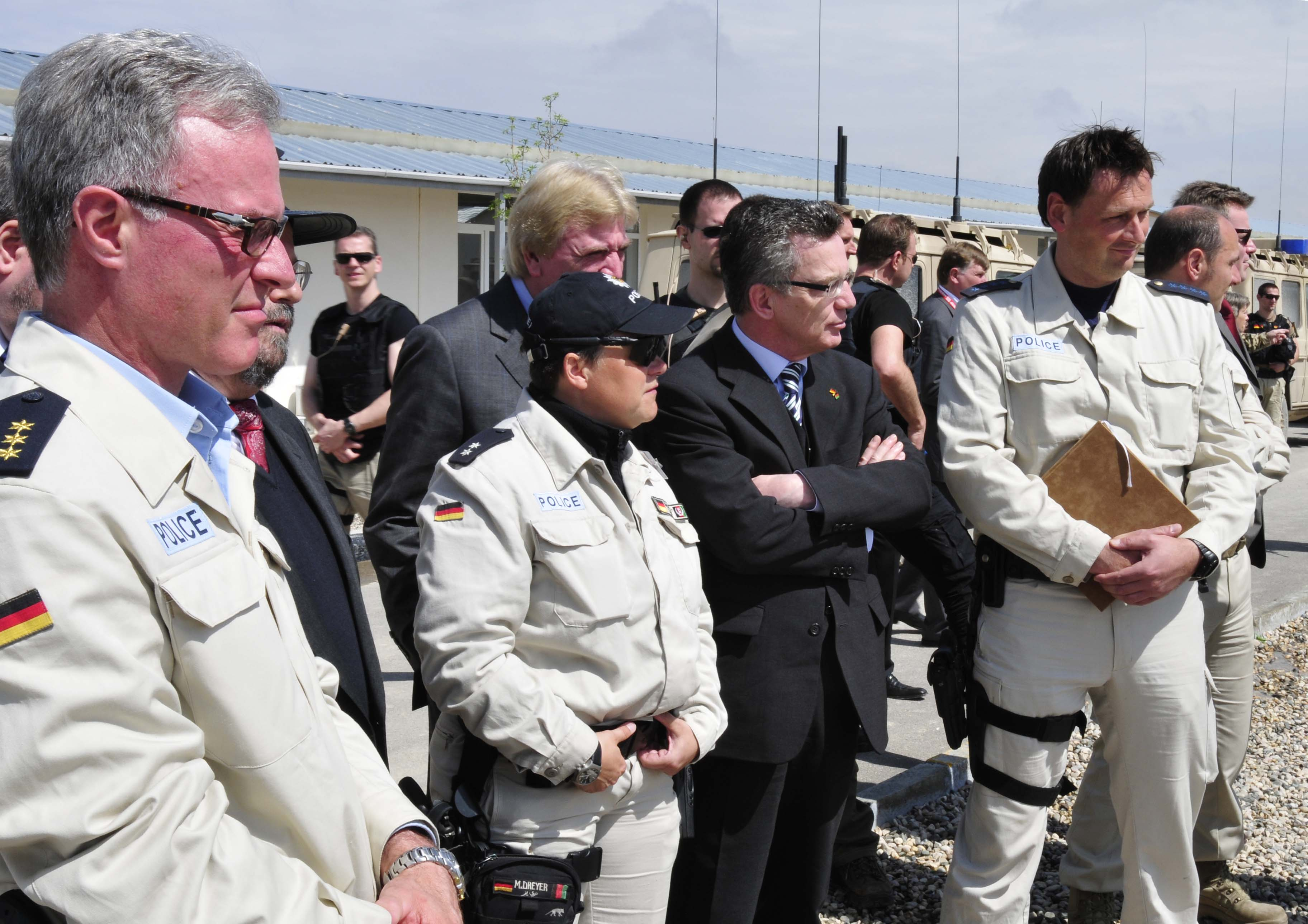 German Minister of the Interior Thomas Maiziere takes a look at German Forces assisting in the instruction of the Afghan National Police at a basic training facility in Mazar-e-Sharif. (Photo by Mass Communication Specialist Second Class Daniel Stevenson)